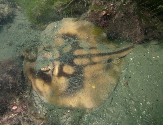 A Banded Stingaree, Urolophus cruciatus, at Corner Inlet, Wilsons Promontory